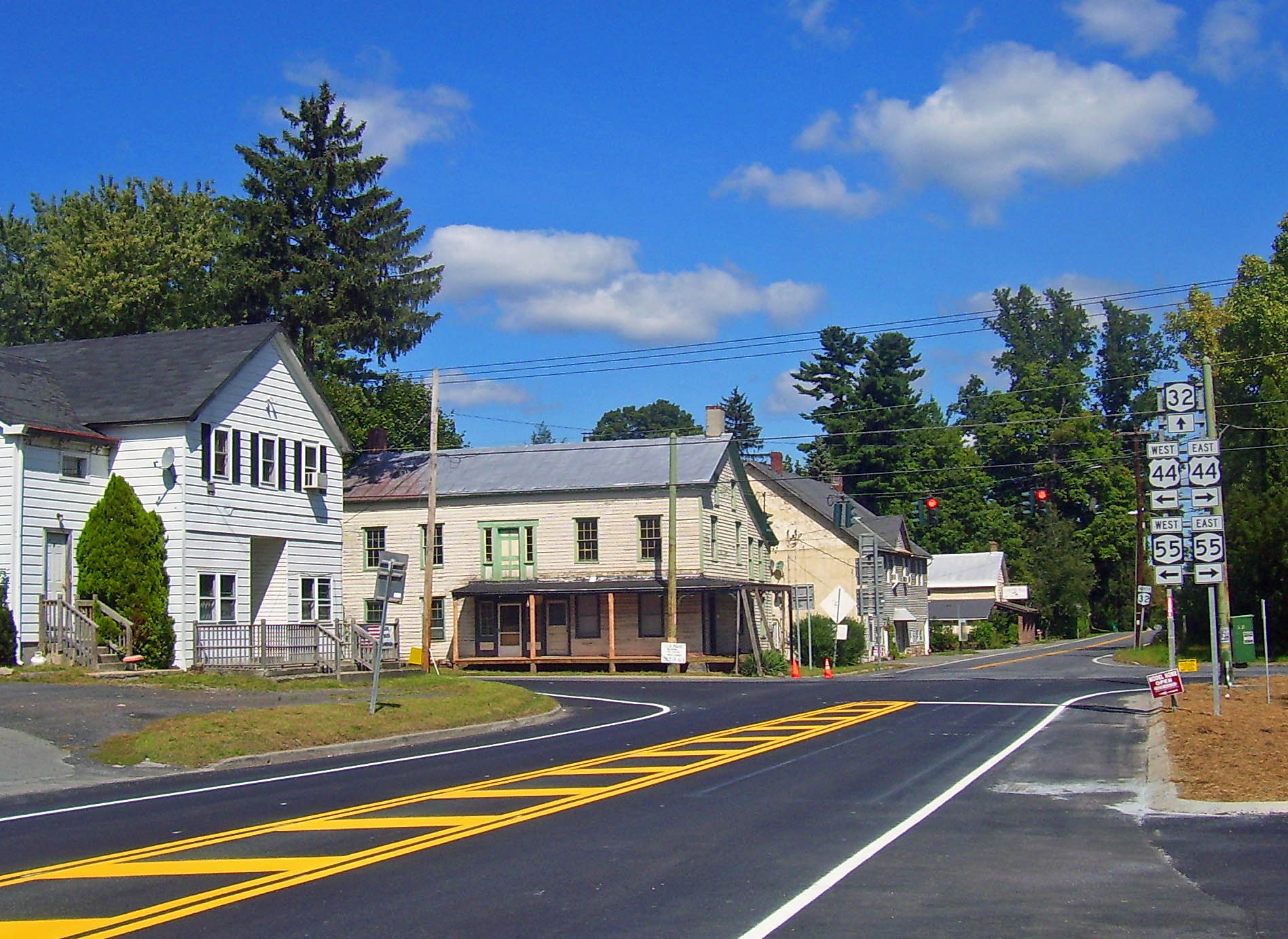 Looking north on NY 32 to the intersection with US 44/NY 55, the center area of Modena, NY, USA